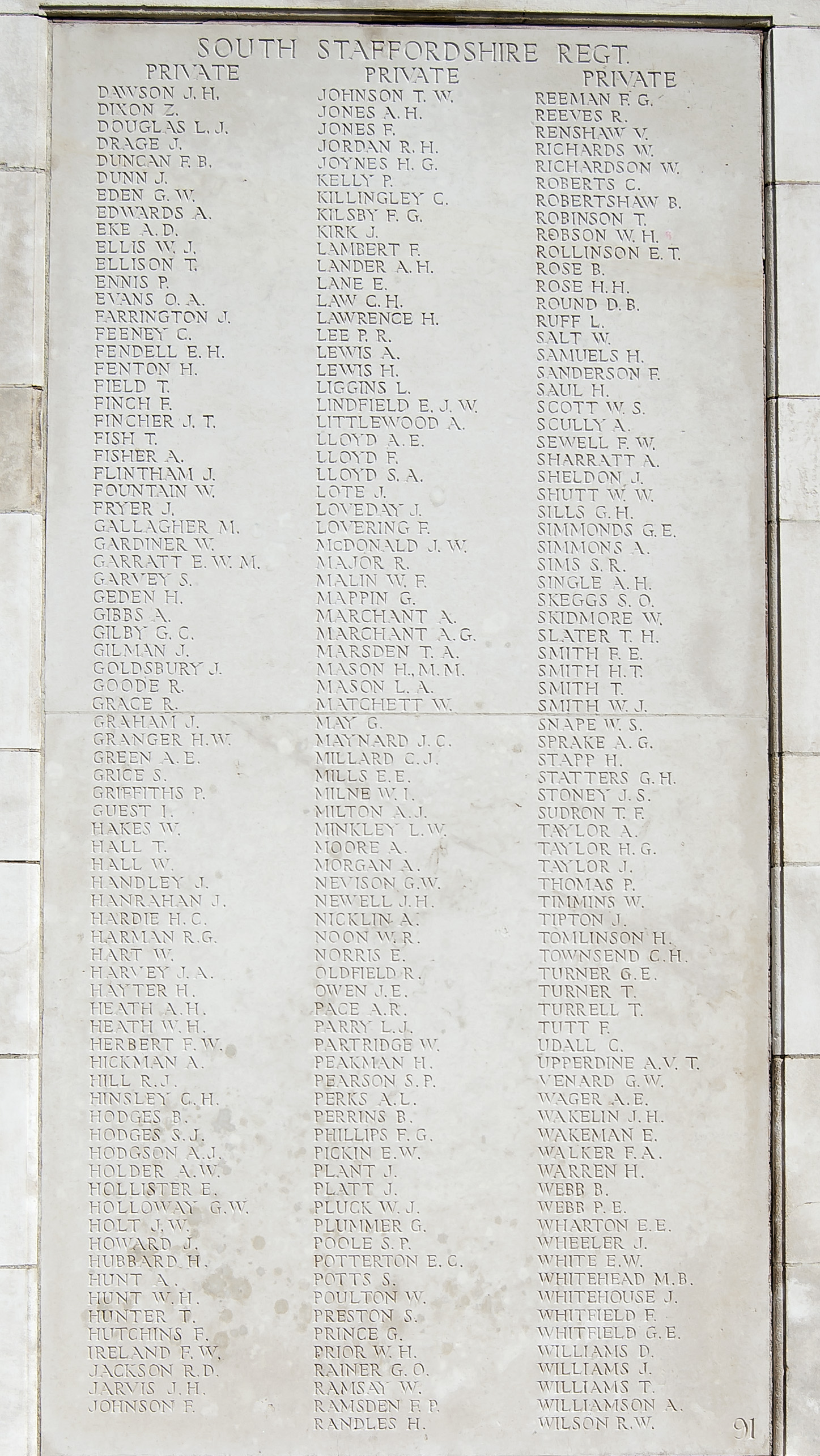 A slab (2 of 3) listing the casualties from World War I at Tyne Cot Cemetery near Ypres in Belgium.